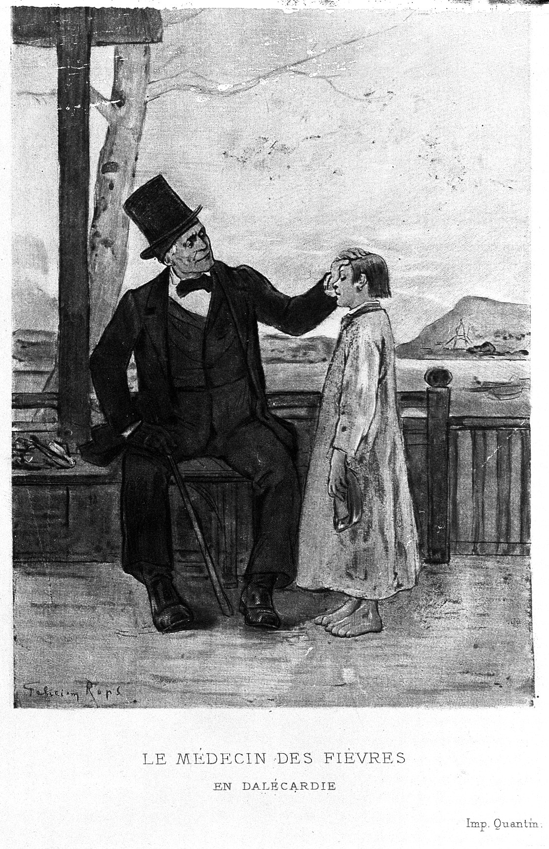 A physician feeling the forehead of a child: a landscape in the background. Photogravure after F. Rops. Iconographic Collections Keywords: Félicien-Joseph-Victor Rops